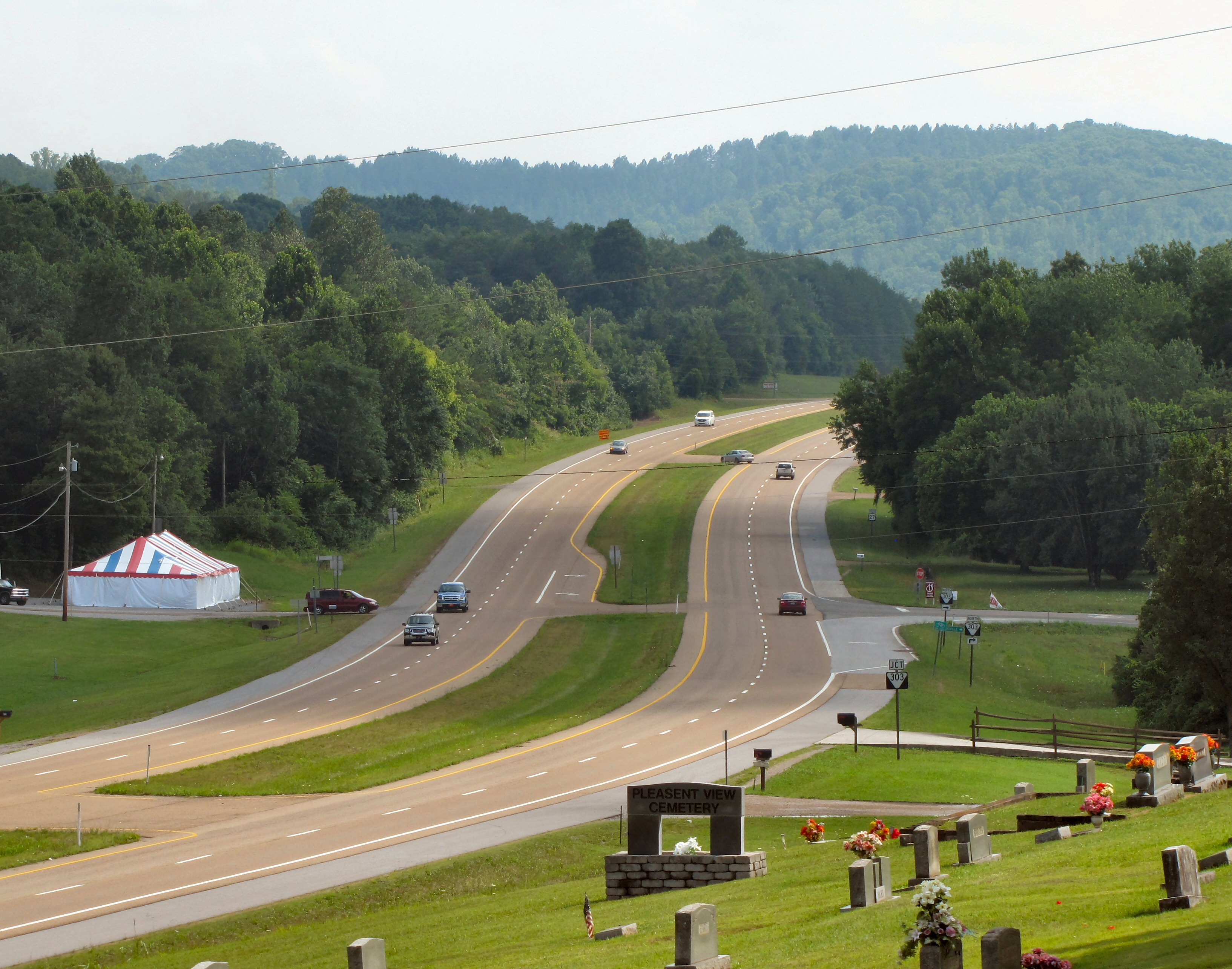 U.S. Highway 27 at its intersection with Tennessee State Route 303, viewed from the Pleasant View Cemetery near Graysville in Rhea County, Tennessee, United States. The tent-like structure on the left is a fireworks stand.